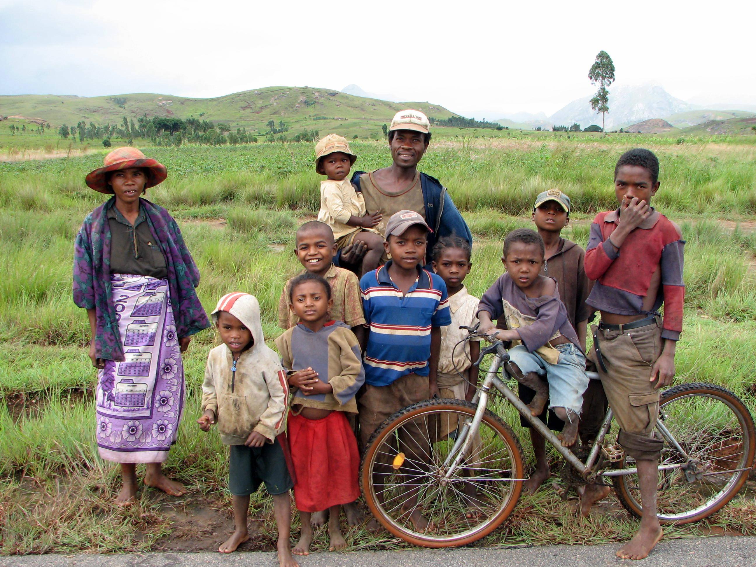 Family near Ambalavao, Madagascar